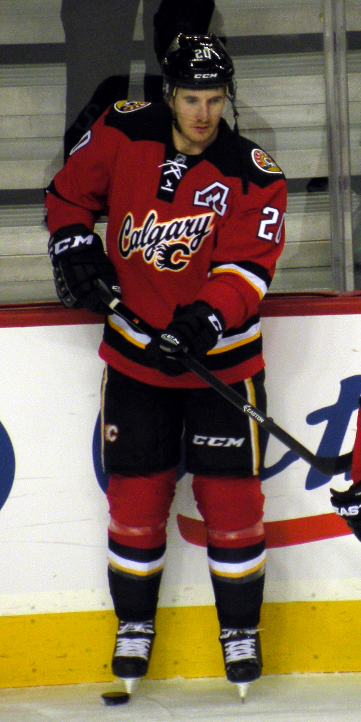 Calgary Flames forward Curtis Glencross prior to a National Hockey League game against the Detroit Red Wings.